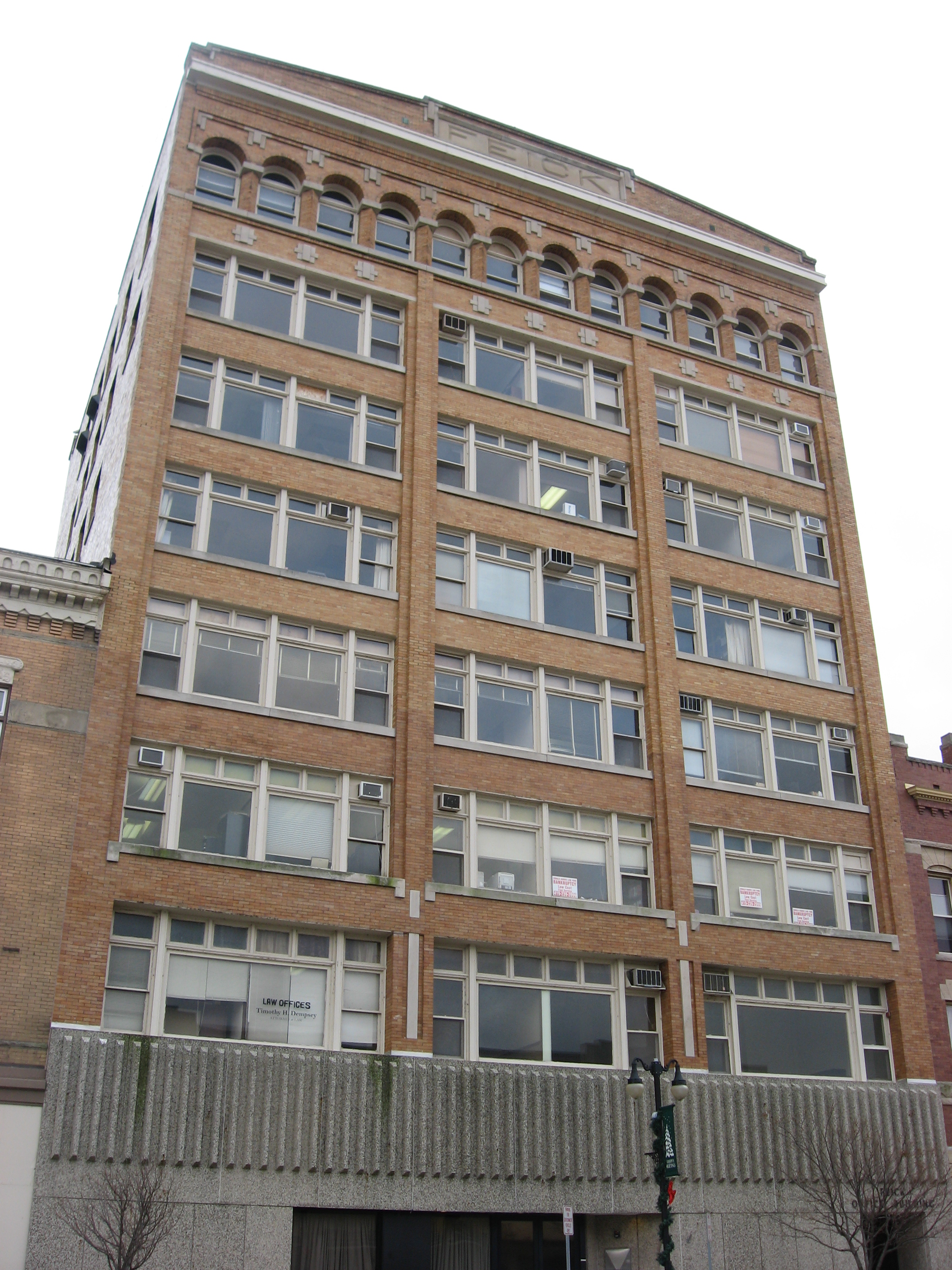 Front and eastern side of the Feick Building, located at 158-160 E. Market Street in Sandusky, Ohio, United States. Built in 1909, it is listed on the National Register of Historic Places.